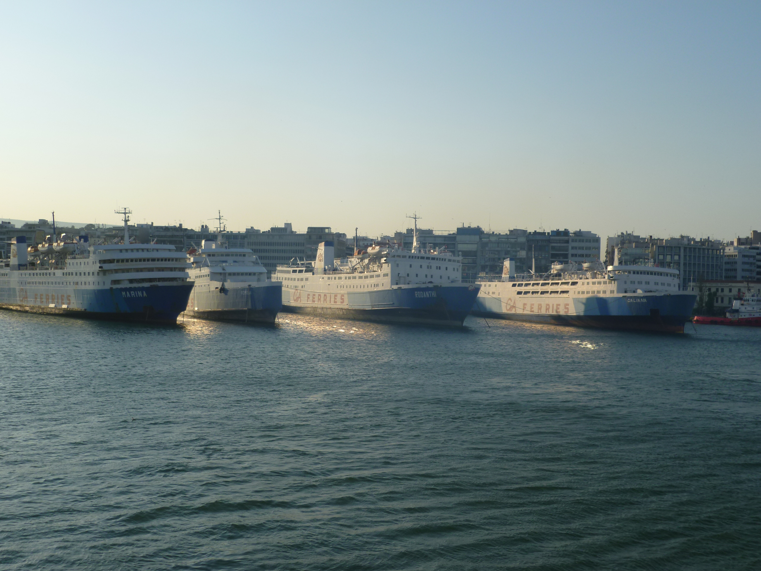 Four abandoned ferries of GA Ferries in Piraeus harbour. Starting from right their names read Daliana, Rodanthi, Romilda and Marina.